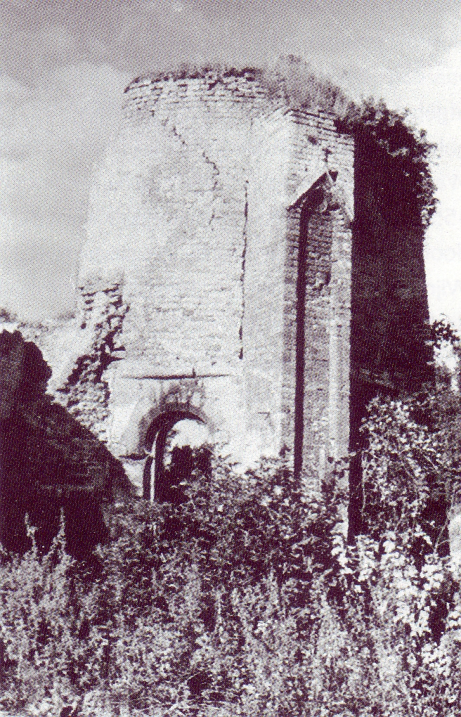 Boudewijnskerke Kerkruïne Sint Nicolaas